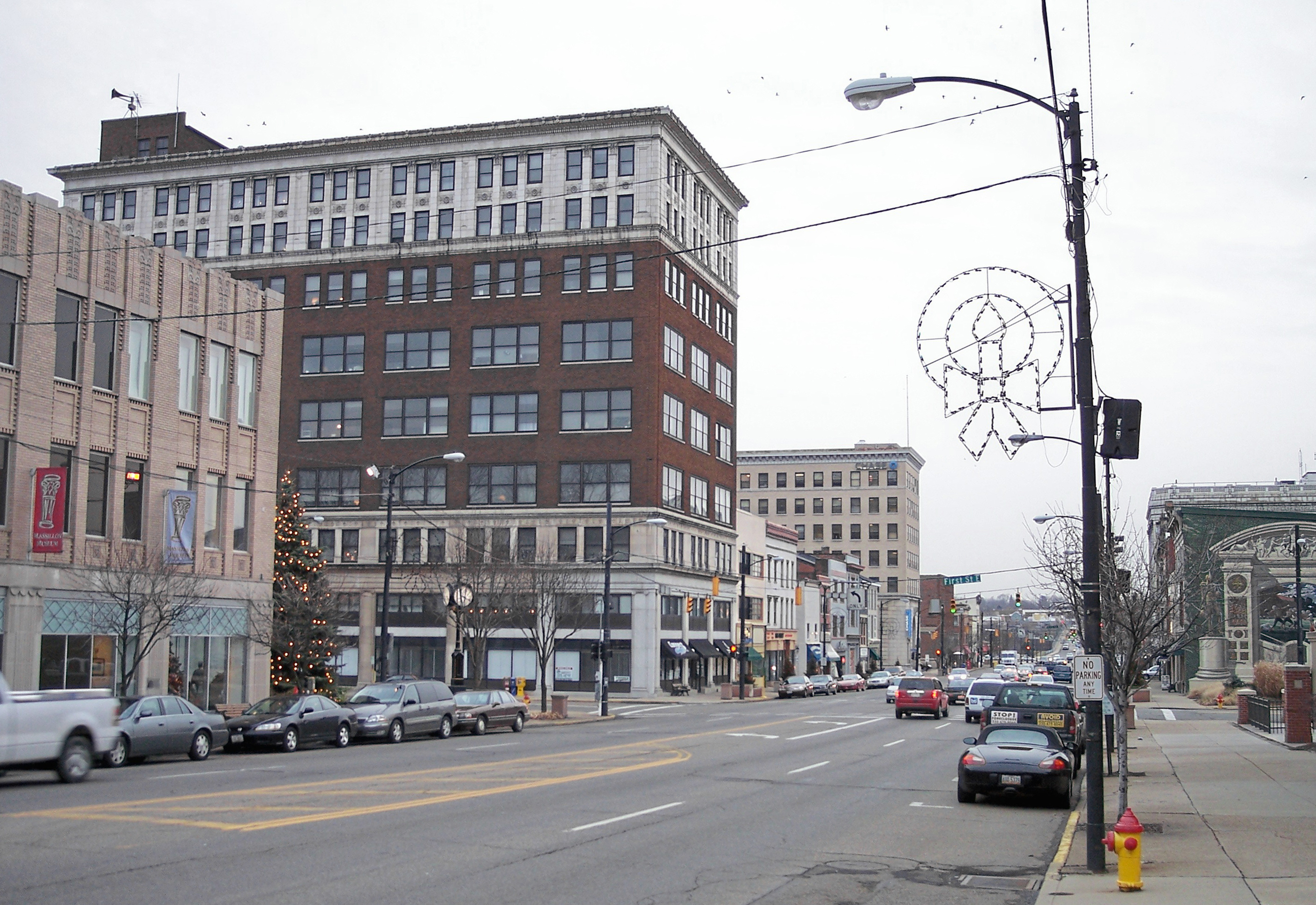 Lincoln Way in downtown Massillon, Ohio